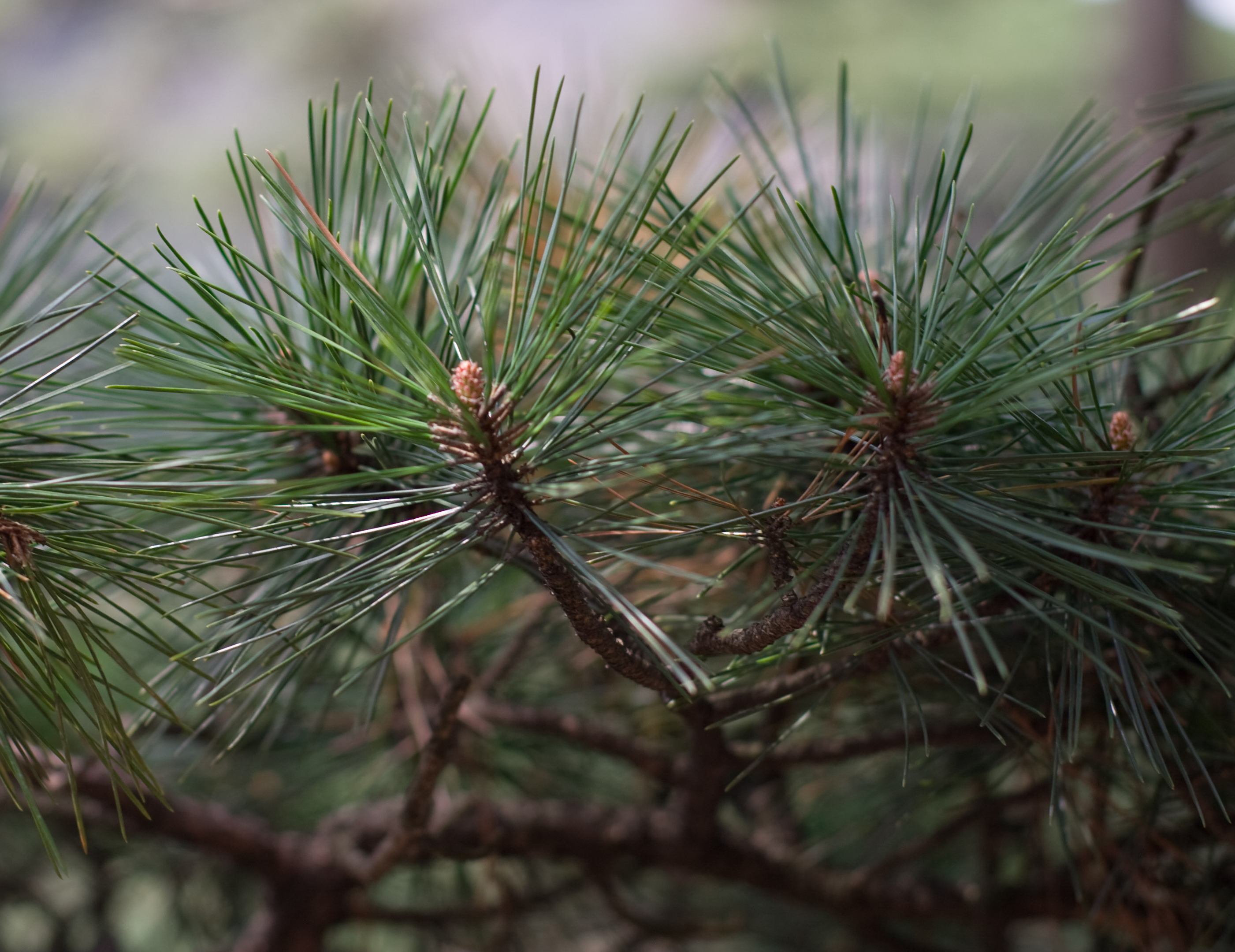 Pinus hwangshanensis foliage, Huang Shan, Anhui, China